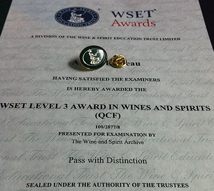 cropped to give a better look at the Award certification and pin from the Wine and Spirits Education Trust for completion of the Level 3 program for wine and spirits